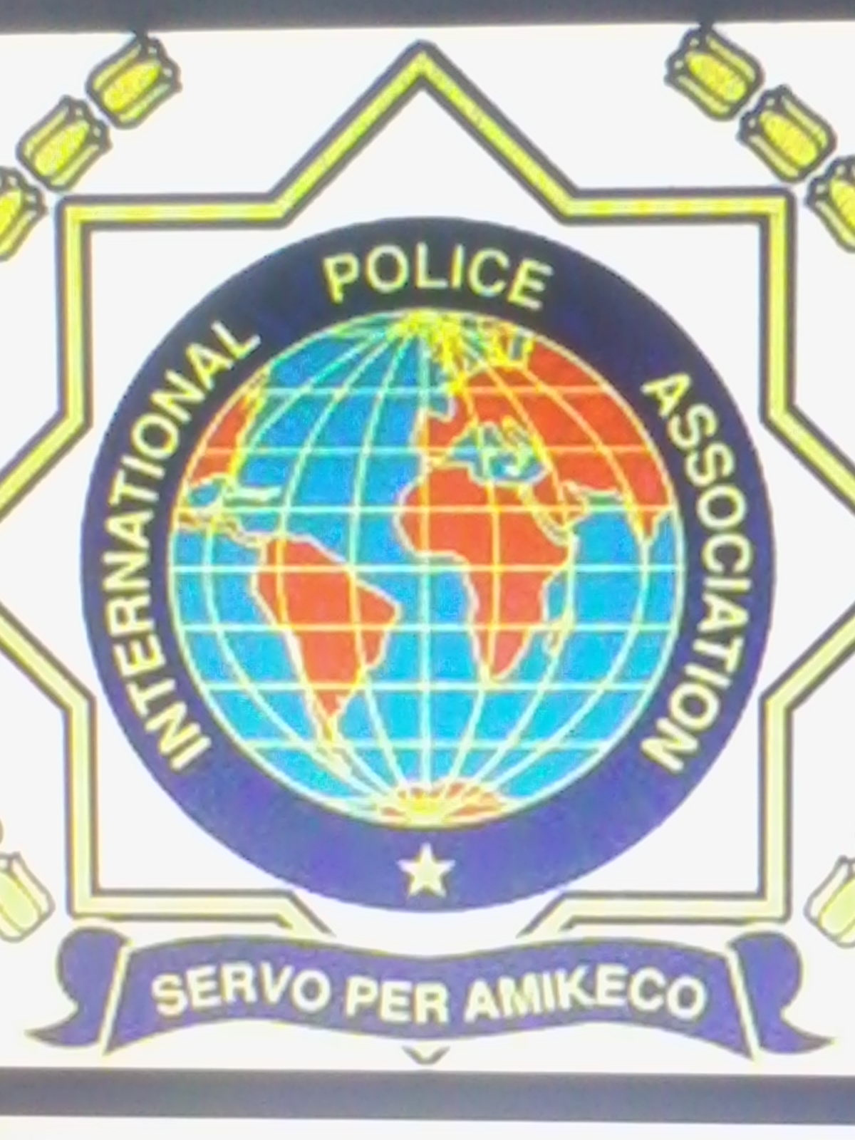 INTERNATIONAL POLICE ASSOCIATIONEsperanto: La Internacia Polica Asocio